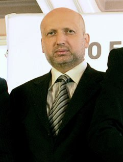 Oleksandr Turchynov, Ukrainian politician, member of the Ukrainian Verkhovna Rada, former Vice-Prime Minister